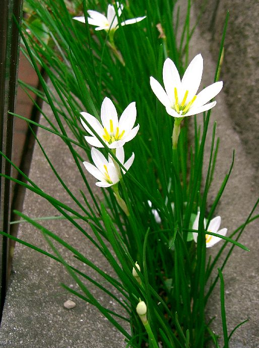 Zephyranthes candida